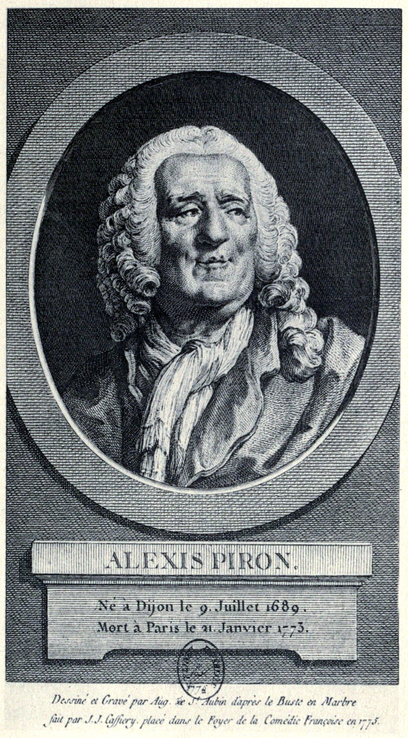 French portrait engraving of the XVIIth and XVIIIth centuries (1910) Author: Thomas, Thomas Head, 1881- Subject: Engraving -- France History; Engravers -- France; Portraits, French; Art, Modern -- 17th-18th centuries France; France -- Biography Portraits Publisher: London, Bell Possible copyright status: NOT_IN_COPYRIGHT Language: English Call number: nrlf_ucb:GLAD-167946426 Digitizing sponsor: MSN Book contributor: University of California Libraries Collection: americana; cdl Selected metadata Copyright-evidence-operator: judyjordan Copyright-region: US Copyright-evidence: Evidence reported by judyjordan for item frenchportraiten00thomrich on November 30, 2007: no visible notice of copyright; stated date is 1910. Copyright-evidence-date: 20071130014042 Scanningcenter: rich Mediatype: texts Collection-library: nrlf_ucb Identifier-bib: GLAD-167946426 Identifier: frenchportraiten00thomrich Imagecount: 402 Ppi: 400 Lcamid: 320094 Rcamid: 333345 Camera: 1Ds Operator: scanner-david-stites@... Scanner: rich4 Scandate: 20071130071150 Identifier-access: Identifier-ark: ark:/13960/t06w9992r Bookplateleaf: 0005 Sponsordate: 20071130